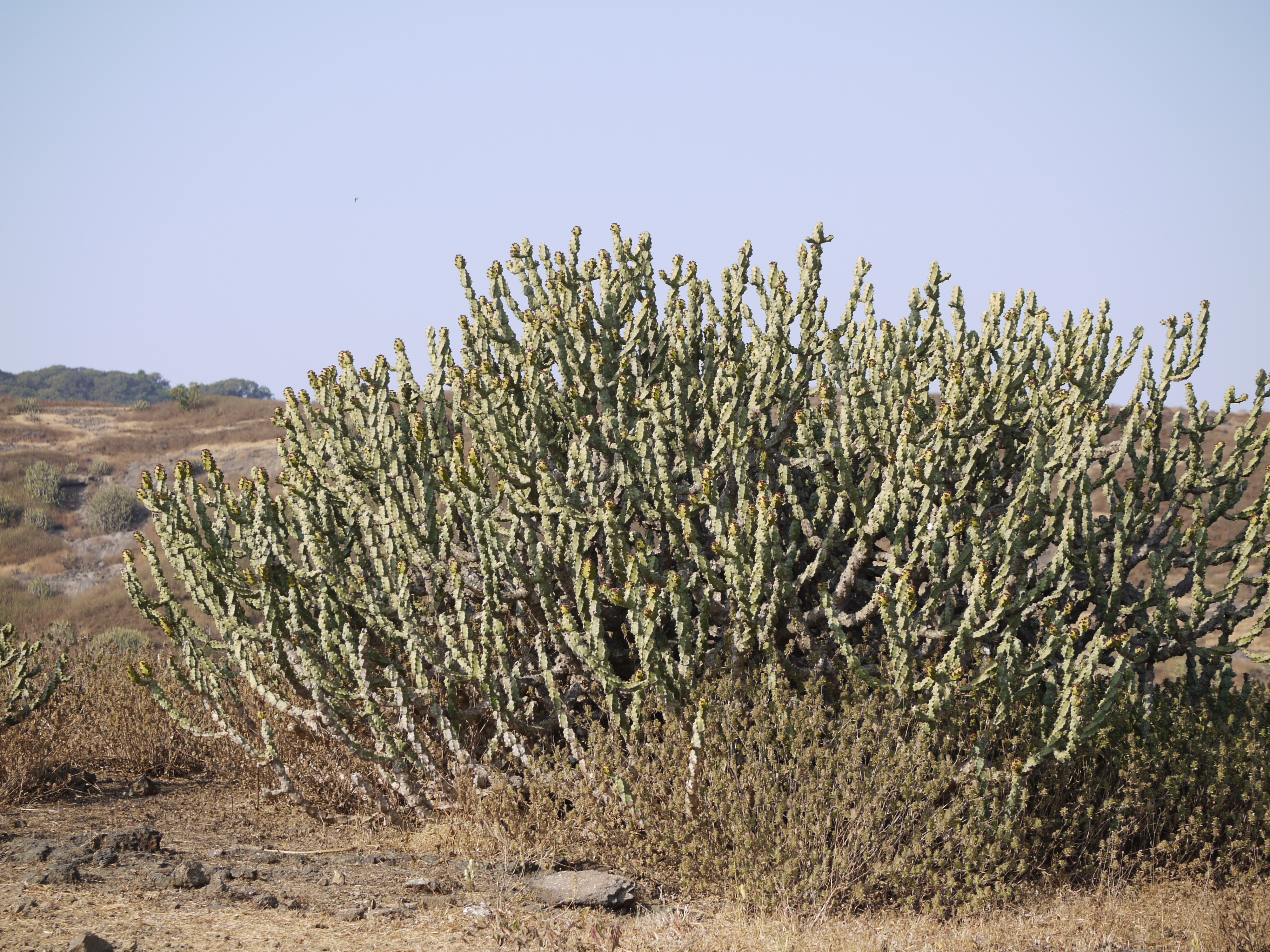 Euphorbiaceae (castor, euphorbia, or spurge family) » Euphorbia neriifolia L. yoo-FOR-bee-uh -- named for Euphorbus, Greek physician to Juba II ... Dave's Botanary ner-ee-eye-FOH-lee-uh -- oleander-leaved (also spelled nerifolia) ... Dave's Botanary commonly known as: five-tubercled spurge, hedge euphorbia, Indian spurge tree, milk spurge, oleander spurge • Assamese: সৰু সিজু sarau siju • Bengali: মনসাসিজ mansa-sij • Gujarati: ભુંગરા થોર bhungara thor, થોર thor, થૂવર thuvar • Hindi: सेहुण्ड sehund, सीज sij, थूहर thuhar • Kannada: ಎಲೆಕಳ್ಳಿ elekalli, ಮಾಲೆಕಳ್ಳಿ malekalli • Malayalam: ഇലക്കള്ളി ilakkalli • Manipuri: তেঙনৌ tengnou • Marathi: मिंगुट mingut, पालेहुरा palehura, वई निवडुंग vayi nivadunga • Oriya: ଗୁଡ଼ା gurda • Sanskrit: सेहुण्ड sehunda, स्नुही snuhi • Tamil: இலைக்கள்ளி ilai-k-kalli, நாத்தாங்கி na-t-tanki • Telugu: ఆకుజెముడు aku-jemudu • Tibetan: si ri kha nda, snu-ha • Urdu: تهوهر thuhar Native to: India, Myanmar, Malaysia, New Guinea; widely cultivated References: Flowers of India • Flora of Pakistan • NPGS / GRIN • ENVIS - FRLHT